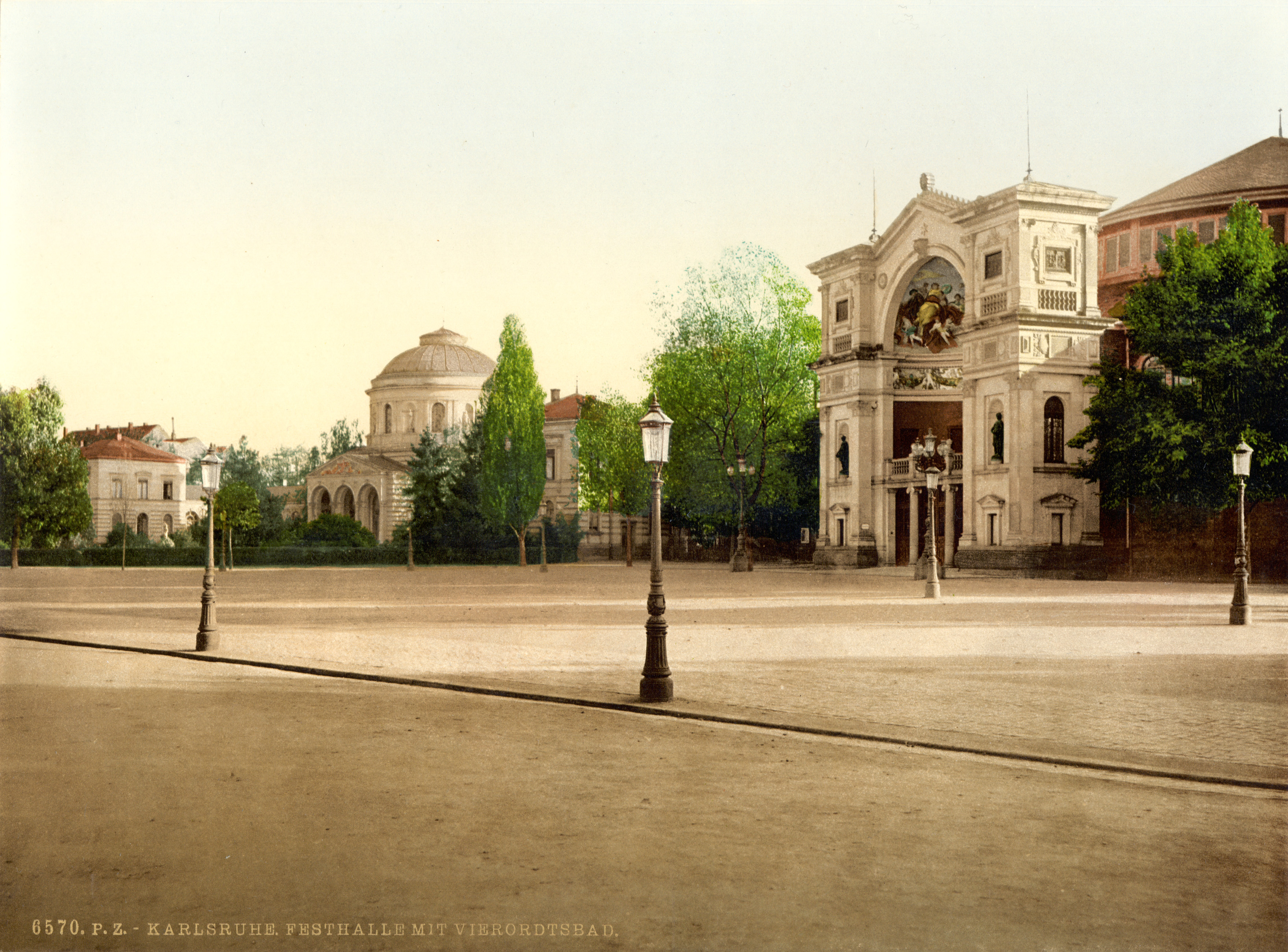 Photochrom print by Photoglob Zürich, between 1890 and 1900. From the Photochrom Prints Collection at the Library of Congress More photochroms from Germany | More photochrom prints [PD] This picture is in the public domain